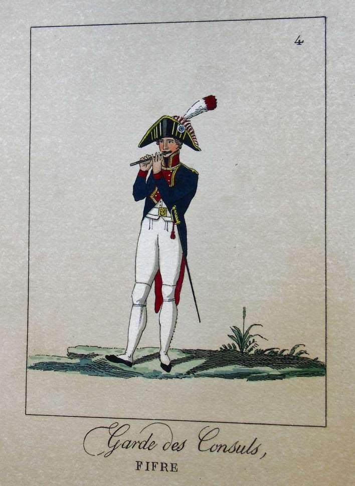 Fifer from the French Consular Guard